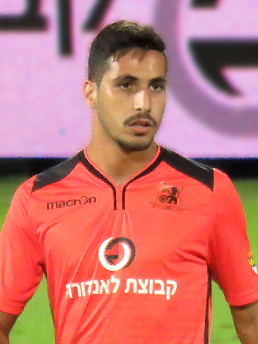 Bnei Yehuda Tel Aviv vs. Beitar Jerusalem - 19 September, 2015